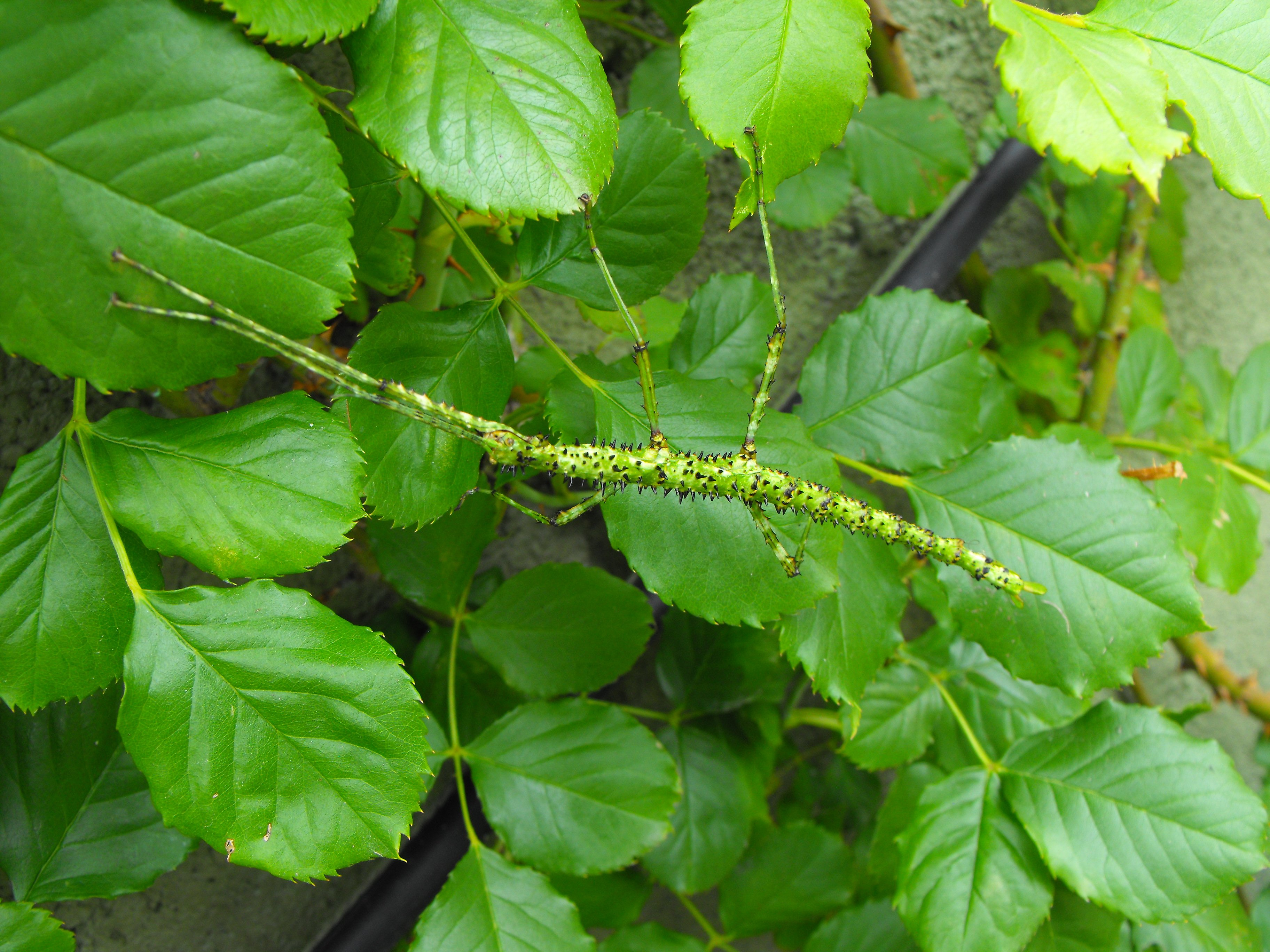 Acanthoxyla prasina or prickly stick insect, found in Fairfield, Otago, New Zealand, about 10 June, 2012. Photo by Alan Gilchrist